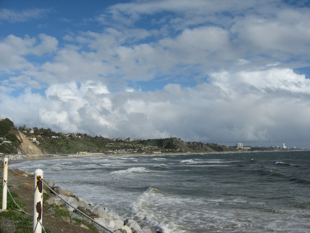 View south from Will Rogers State Beach, of Pacific Palisades and Santa Monica, in the western Los Angeles area, California.